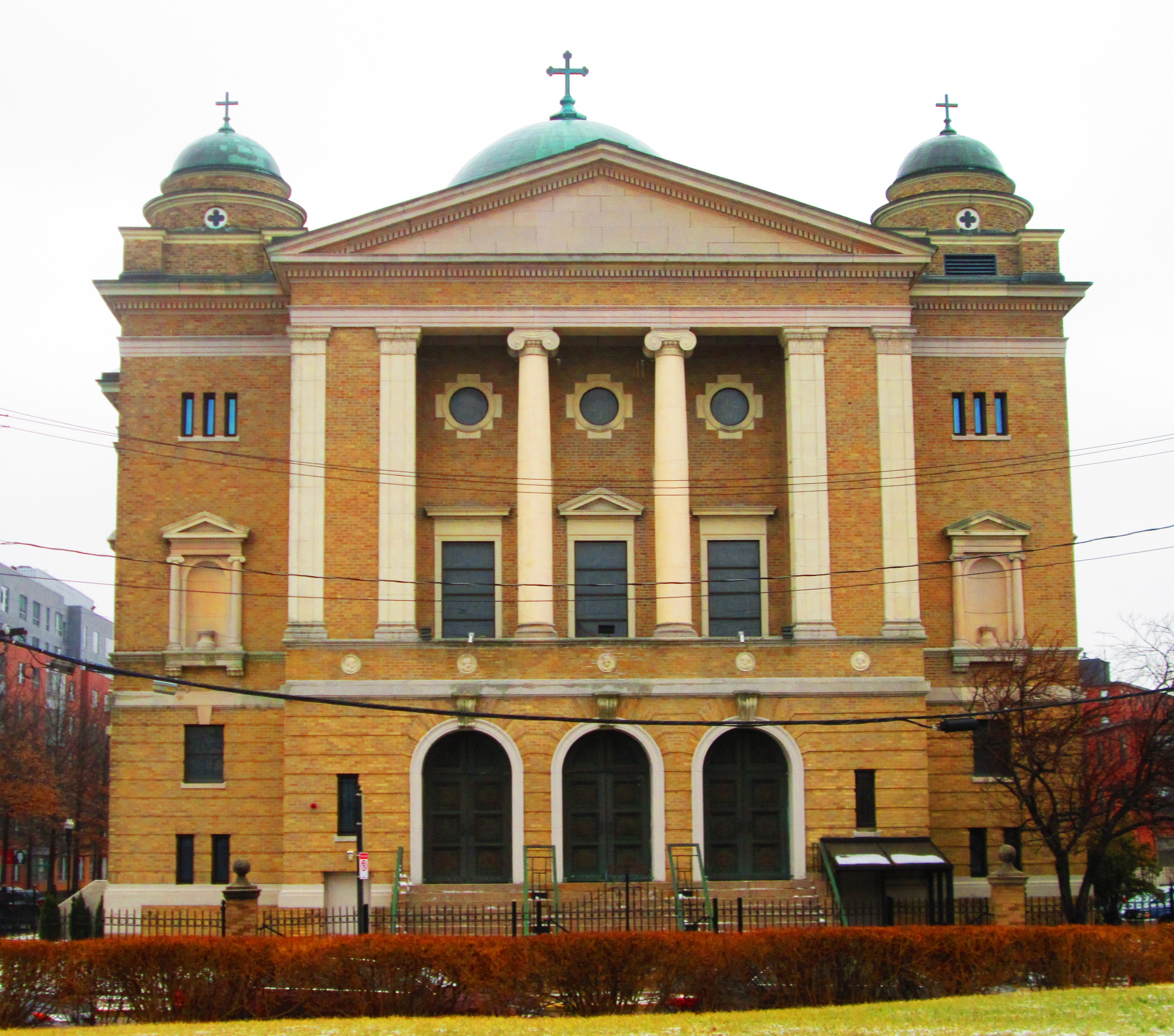 The Annunciation Greek Orthodox Cathedral of New England, located at 514 Parker Street in Boston, Massachusetts, was built in 1923 and was deeisgned by Demoorjian, Hachadoor, with consultation on the interior by Ralph Adams Cram. The cathedral is the seat of the Greek Orthodox Metropolis of Boston. The cathedral is listed on the National Register of Historic Places.